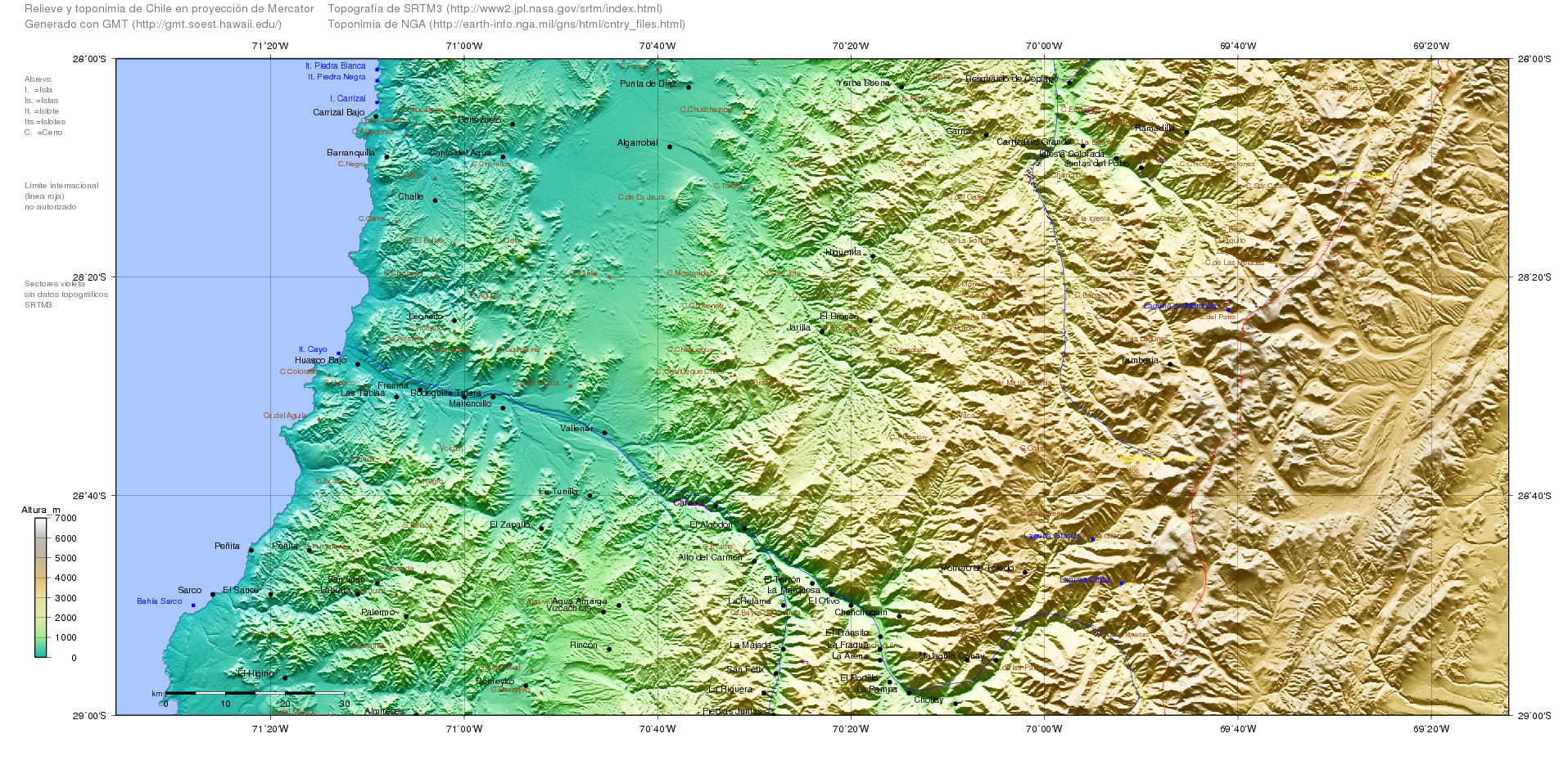 Map of Chile generated with GMT ( topography from SRTM ftp://e0srp01u.ecs.nasa.gov/srtm/version2/SRTM3/ and toponymy from